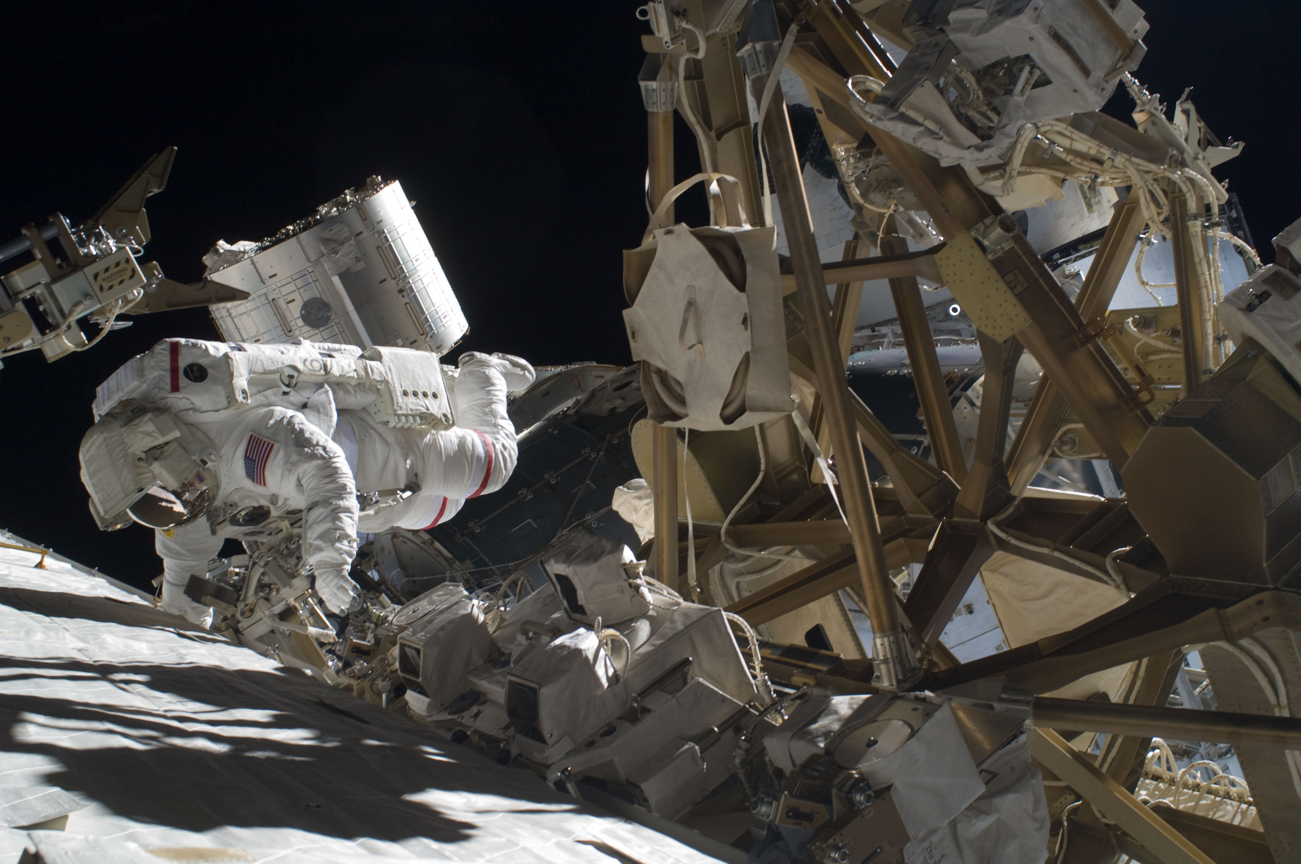 Astronaut Mike Foreman, STS-129 mission specialist, performs a task on the exterior of the International Space Station during the second space walk of Atlantis' visit to the orbital outpost.